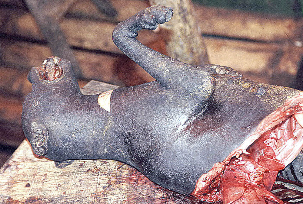 Here in northern Sulawesi (Indonesia) the Muslims are not allowed to eat dog, as it is classed as an unclean animal. The Christians here prize it, however, and make it part of their diet. Singed to remove annoying hair, versatile fido is ready for the frying pan, stew pot or BarBQ. Next time you are in Sulawesi you will find it on the menu tastefully referred to as "RW", so as not offend Muslim clients.